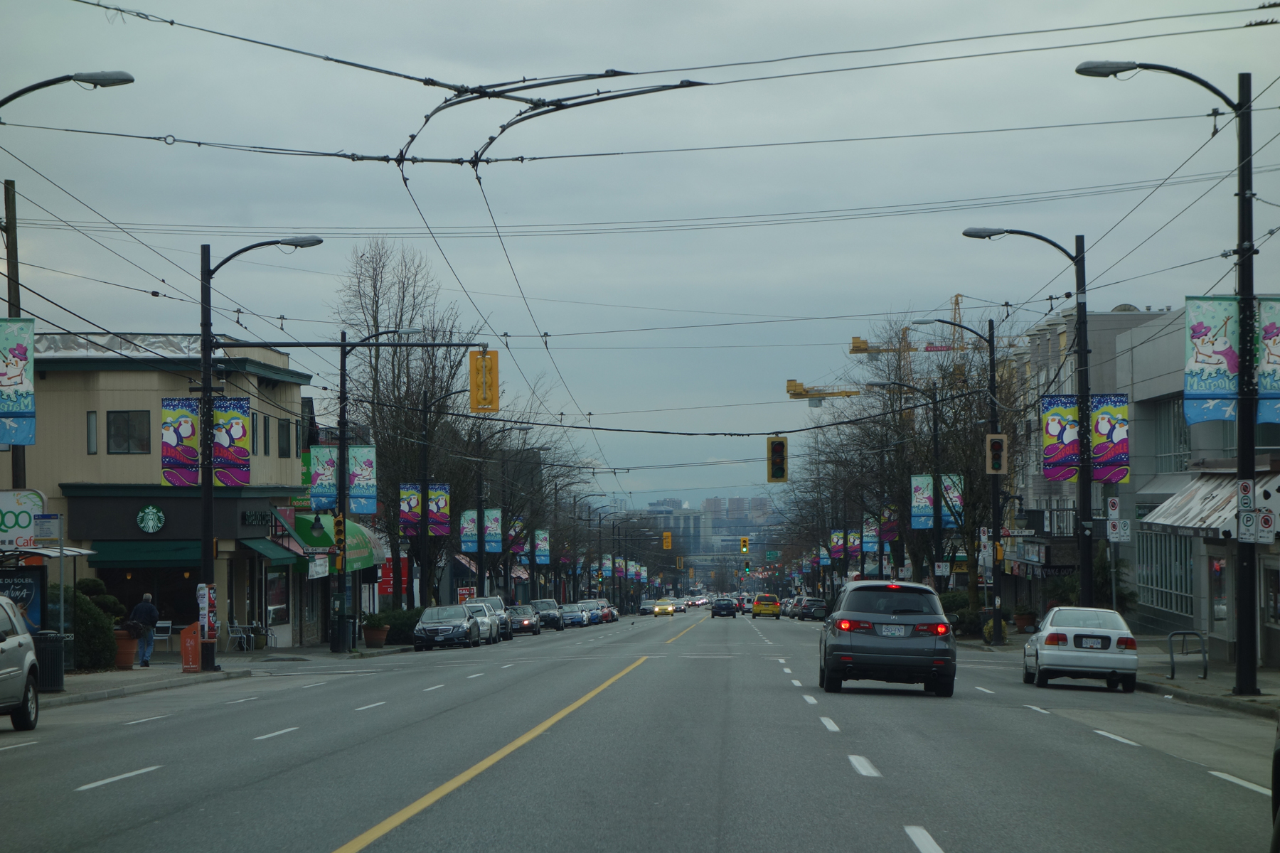 Granville Street near the intersection of West 64th Avenue in Marpole, Vancouver.中文（香港）: 溫哥華馬寶區近西64街交界處的一段固蘭湖街。